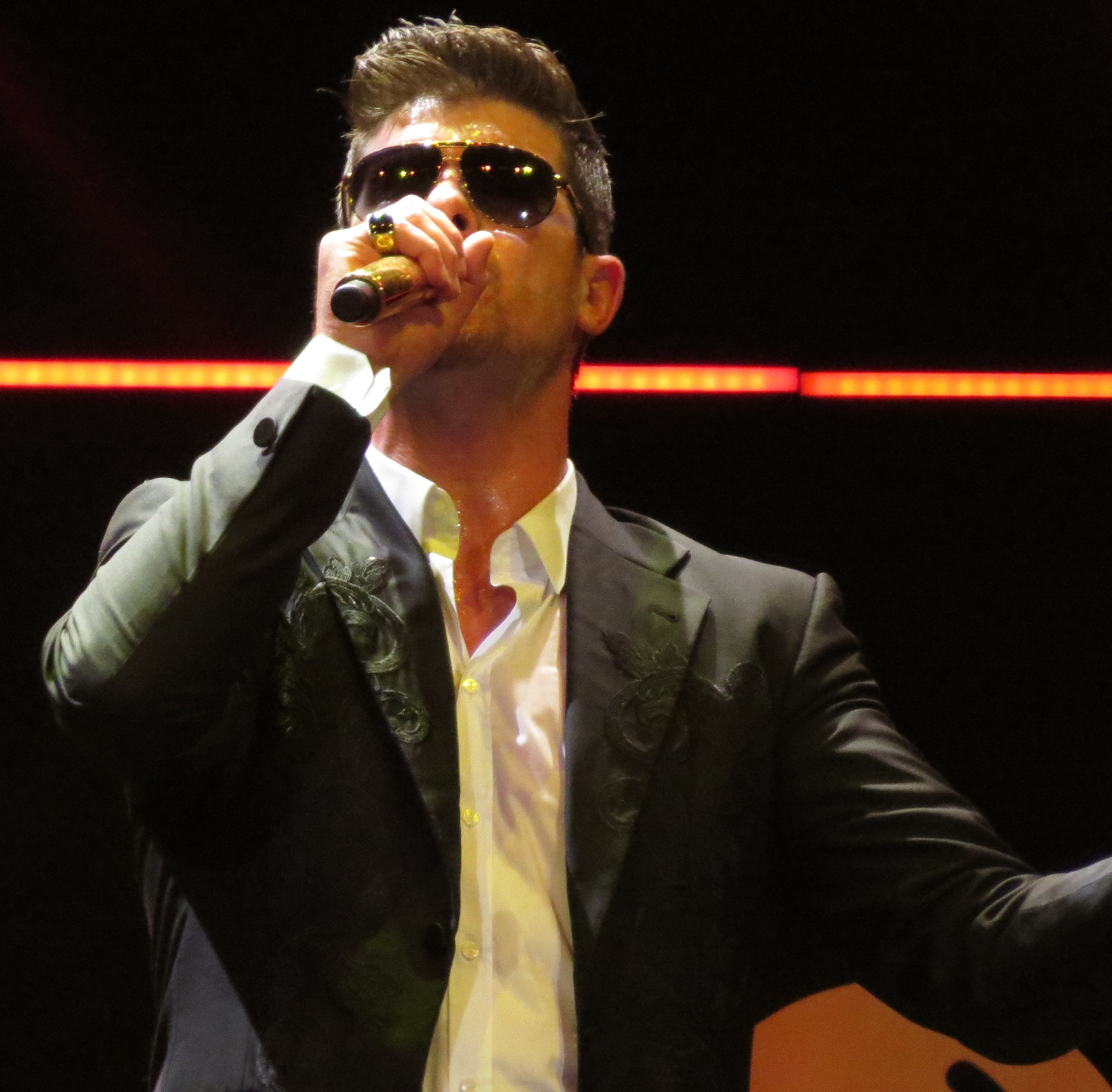 Robin Thicke wearing sunglasses and performing.